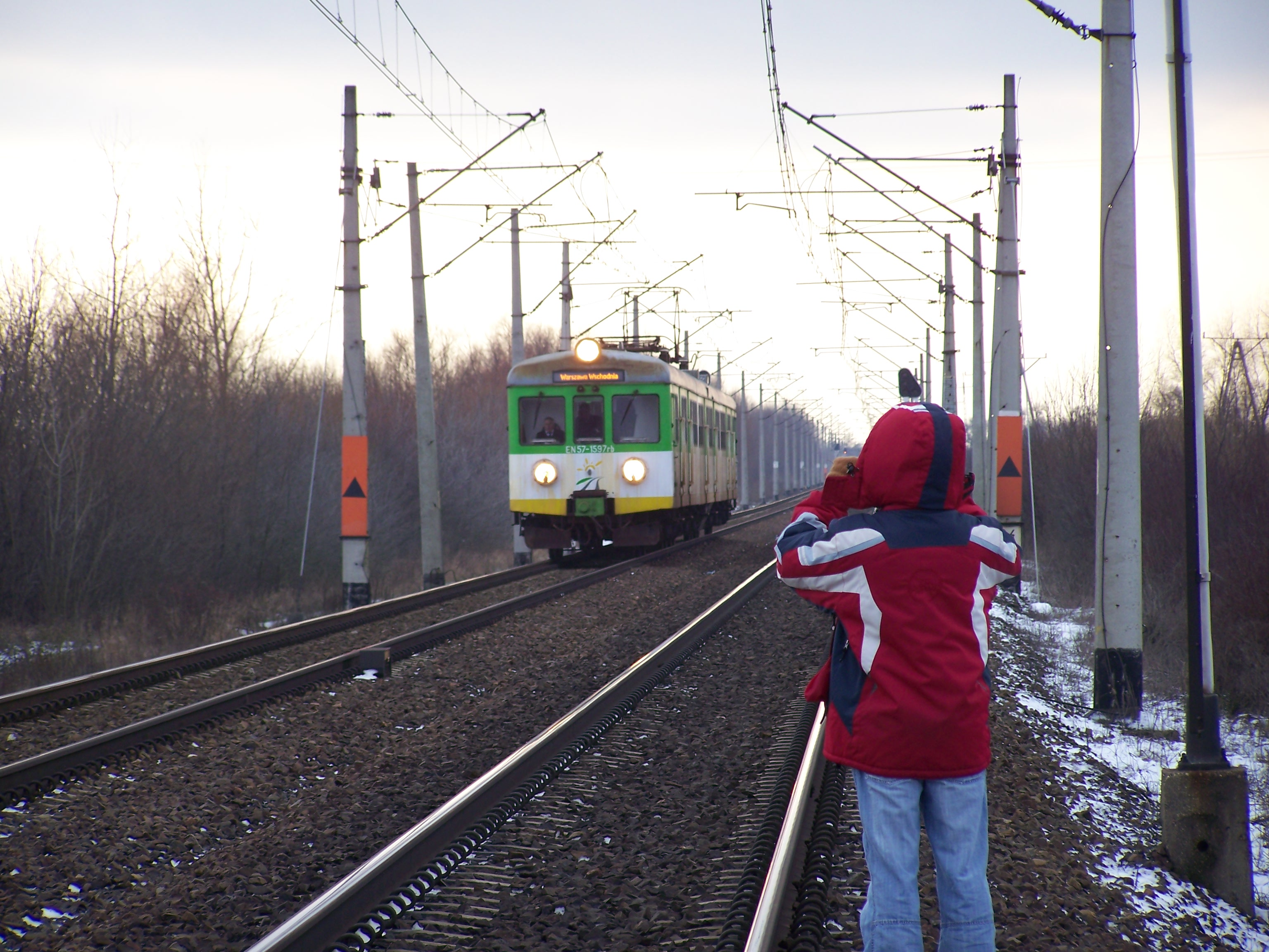 Train spotter in Poland is photographing EN57 series EMU.